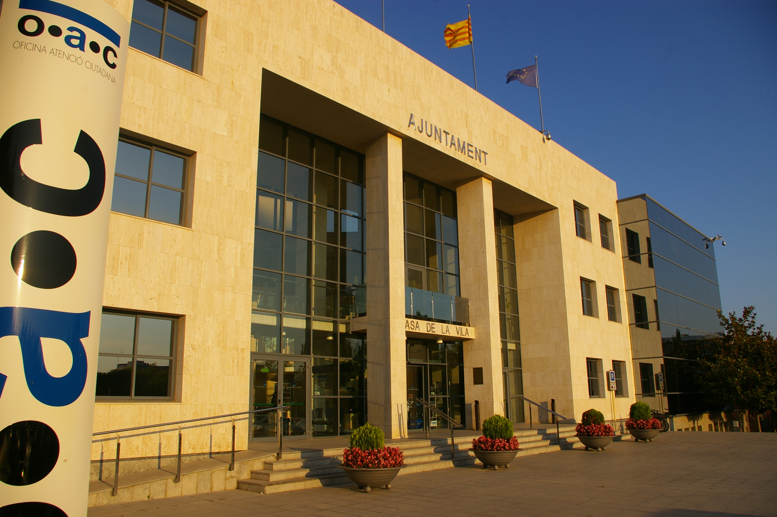 City hall of Cambrils (Baix Camp, Catalonia, Spain).